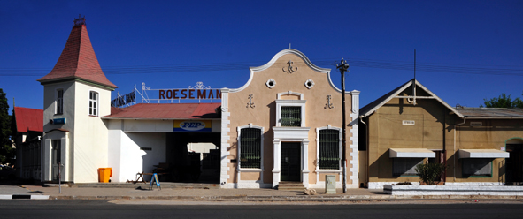 Roesemann building in Karibib, Namibia